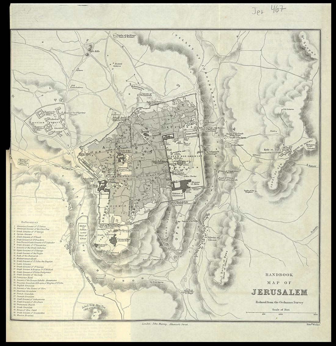 Measurment map of Jerusalem, based on the Ordnance Survey map. From a handbook for travellers in Syria and Palestine, London, John Murray, 1875.